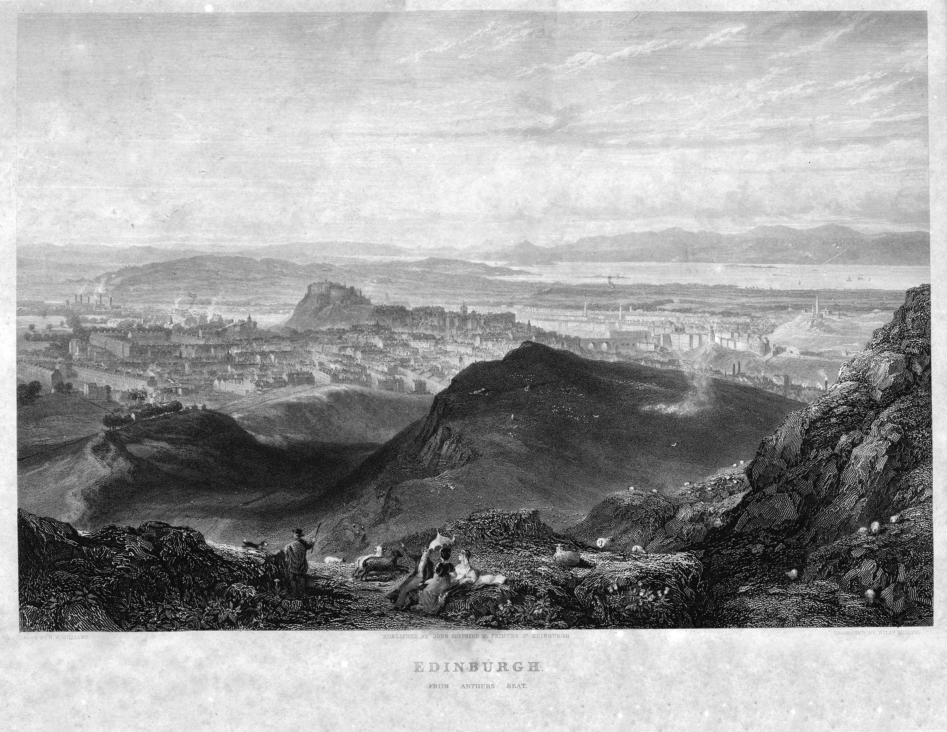 Edinburgh from Arthur's Seat, engraving by William Miller (Miller paid £140-0-0 in xi-1826 for engraving), after H W Williams ('Grecian' Williams), Published by John Shepherd, 15 Princes Street, Edinburgh, 1826. The print was republished in 1846 by Shepherd and Elliott modified to include the National Monument and Scott Monument, with the omission of the parasol held by the woman in the foreground